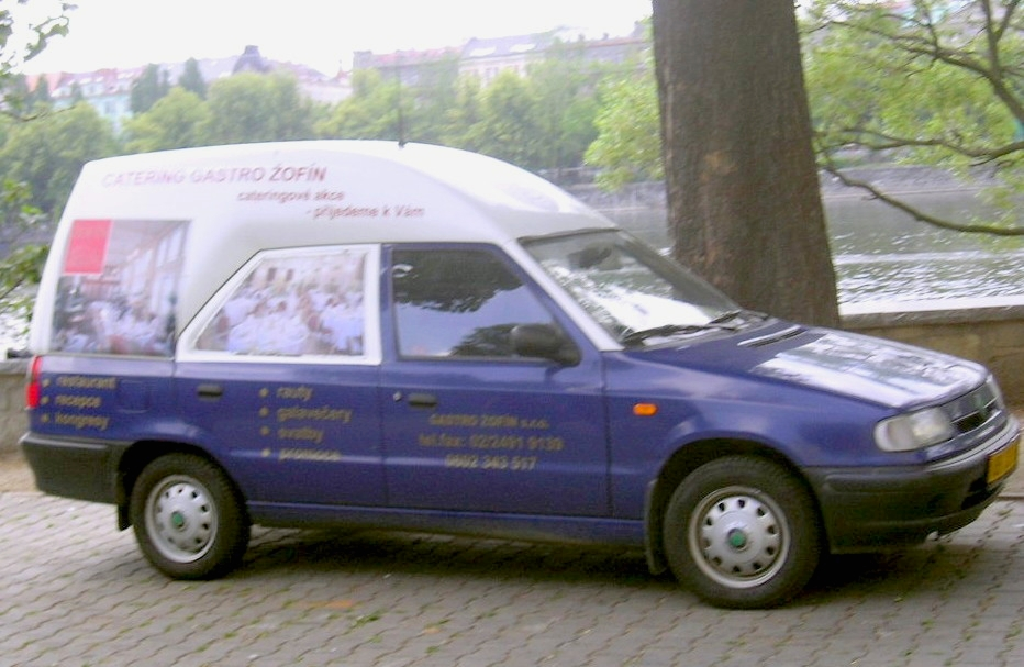 Škoda Felicia Vanplus seen in Prague